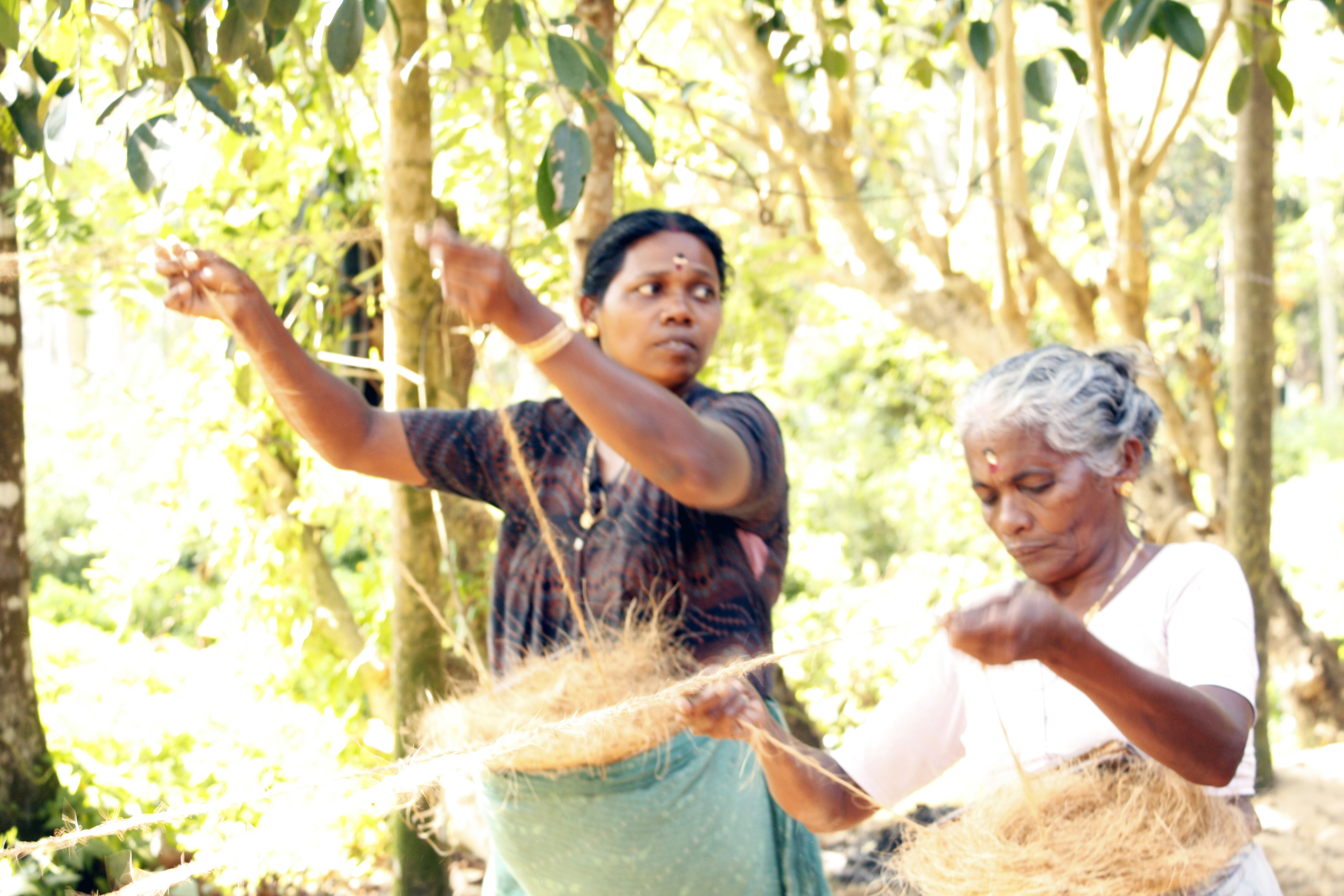 Glenlorna Tata Coffee Estate, Coorg, India